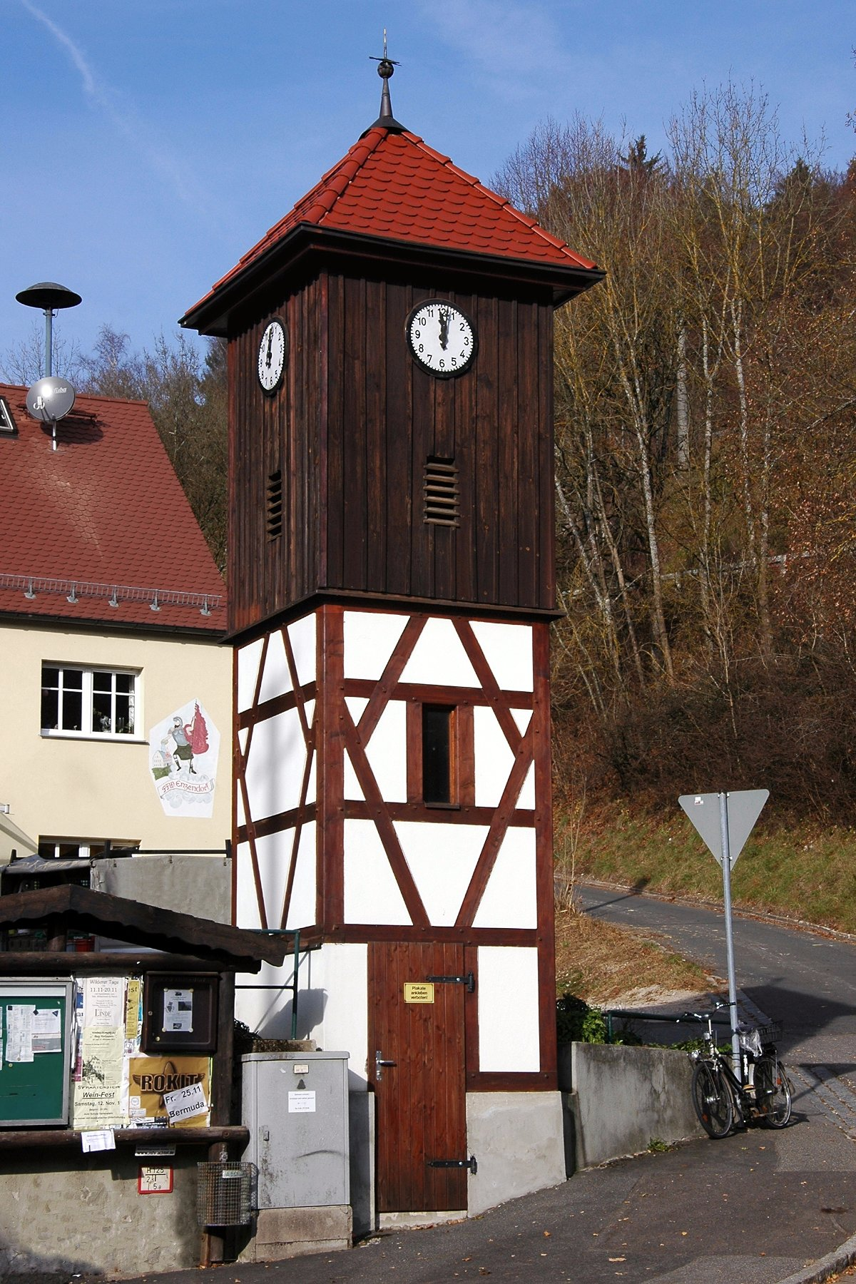 The formerly fire hose tower of Rupprechtstegen with its mechanical tower clock, a ancient station clock.